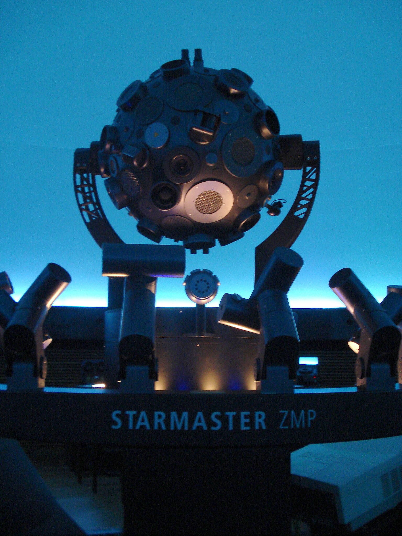 Campus Party Brasil 2008 - The Zeiss projector of planetarium